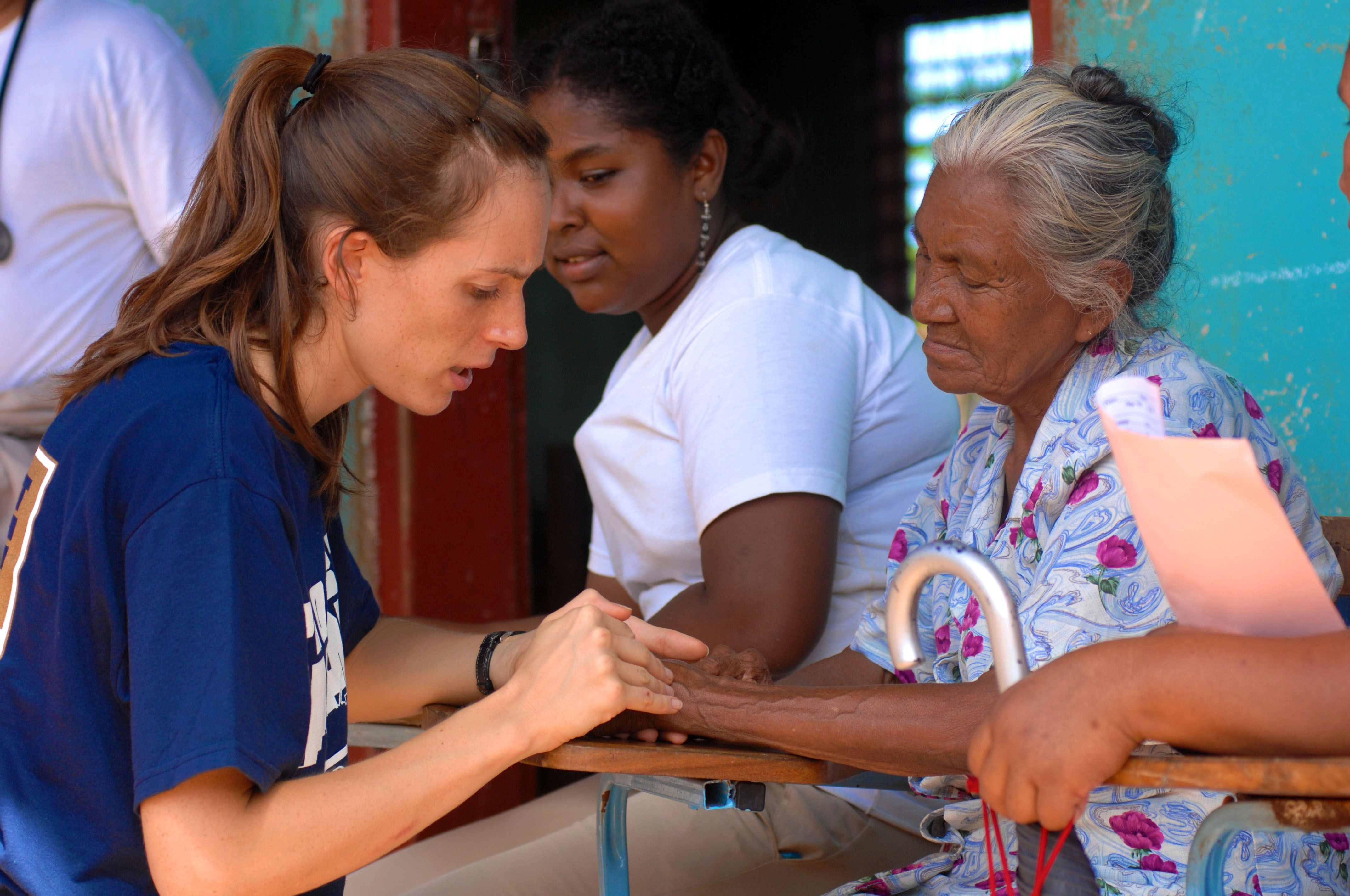 Project Hope volunteer Sara Joyce, embarked aboard the amphibious assault ship USS Kearsarge, examines the hand of an elderly Nicaraguan woman at a medical clinic at Juan Comenius High School during a Continuing Promise 2008 humanitarian assistance project. Kearsarge is the primary platform for the Caribbean phase of Continuing Promise, an equal-partnership mission involving the United States, Canada, the Netherlands, Brazil, Nicaragua, Panama, Colombia, Dominican Republic, Trinidad and Tobago and Guyana.